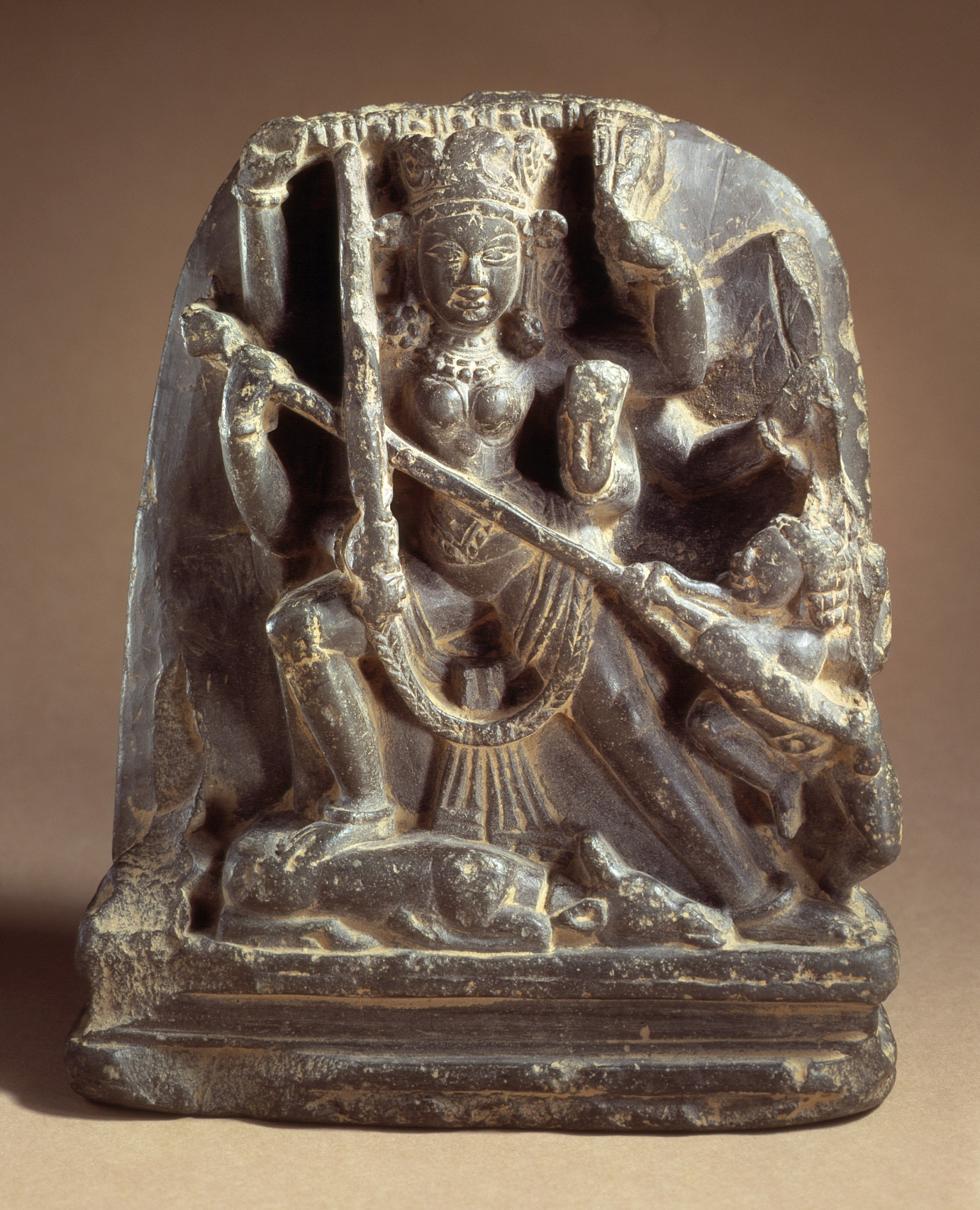 India, Jammu and Kashmir, Kashmir region, 9th century Sculpture Black stone 5 5/8 x 4 3/4 x 1 5/8 in. (14.29 x 12.07 x 4.13 cm) Purchased with funds provided by Harry and Yvonne Lenart (AC1994.141.1) South and Southeast Asian Art